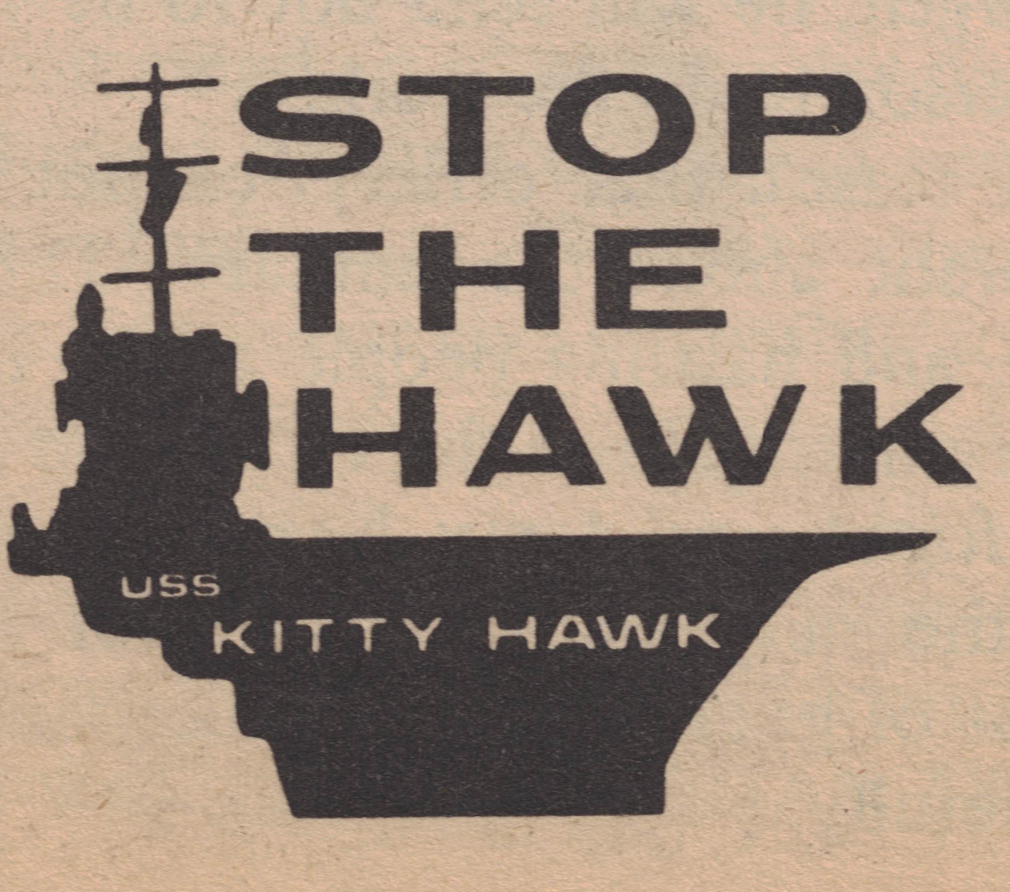 These stickers were part of a campaign to stop the aircraft carrier USS Kitty Hawk from returning to the Vietnam War. Created in 1972